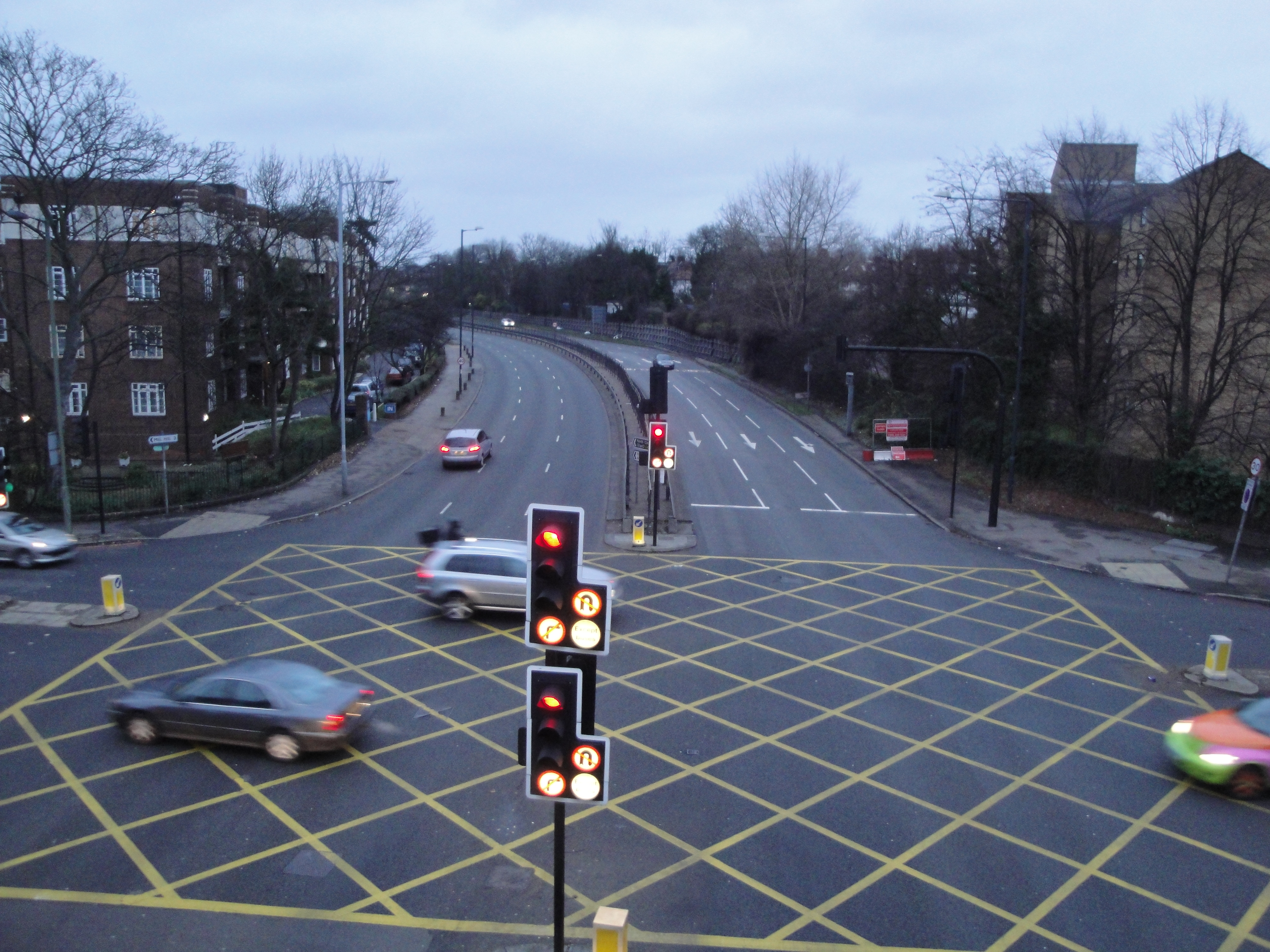 North Circular Road, Hendon, Barnet (borough), London, viewed from the top of the footbridge which connects Golders Green Road with Brent Street.